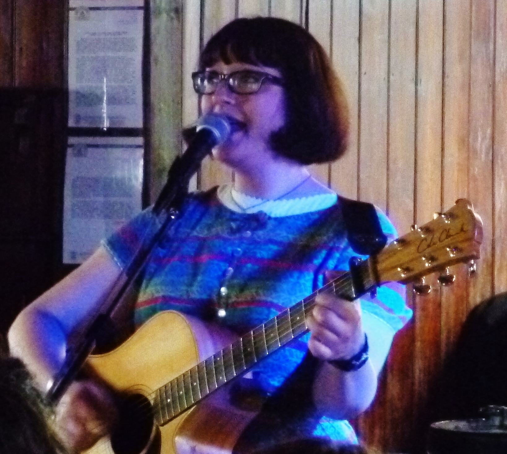 Rose Melberg singing in a church.